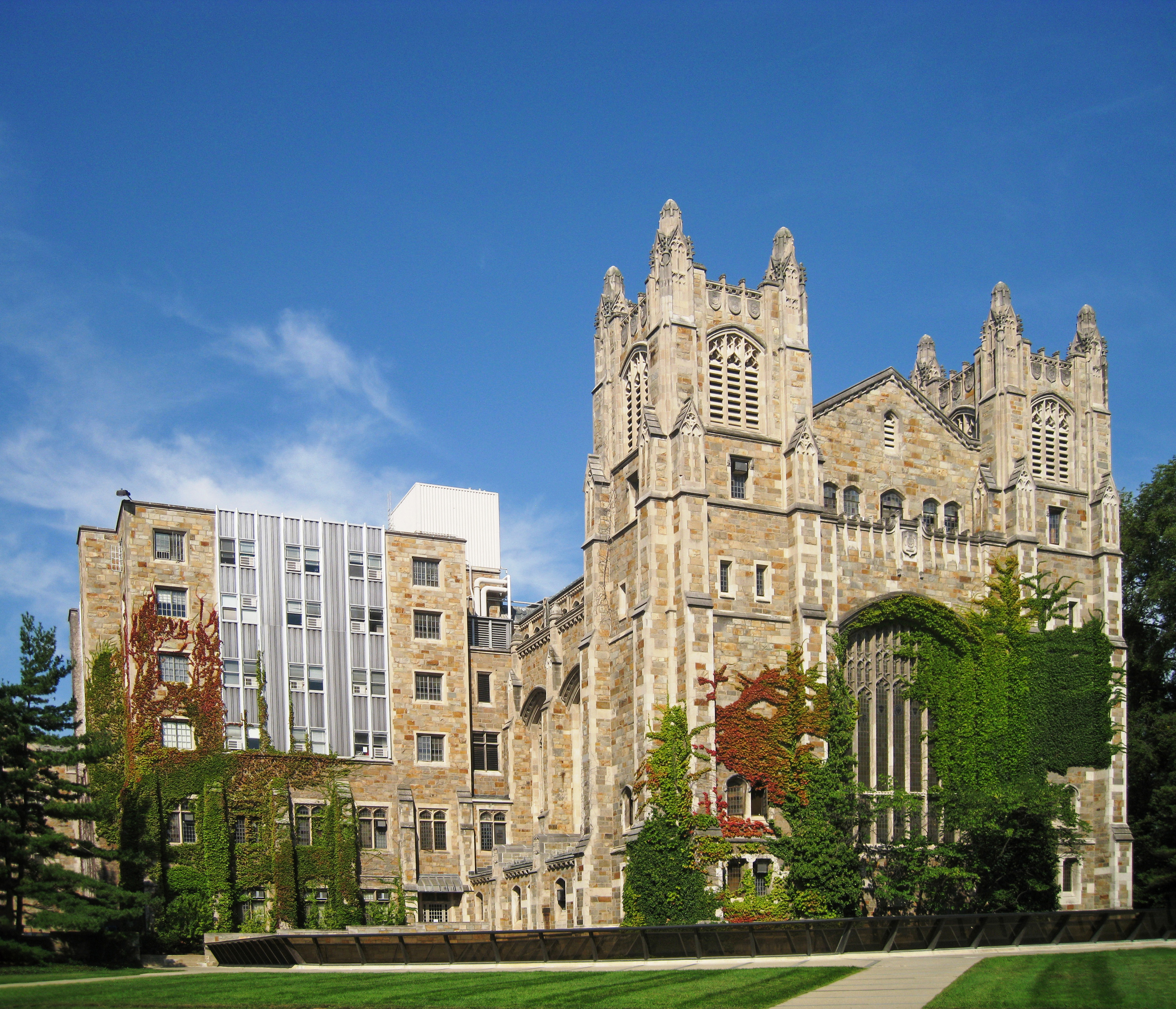 University of Michigan Law School Fall 2009